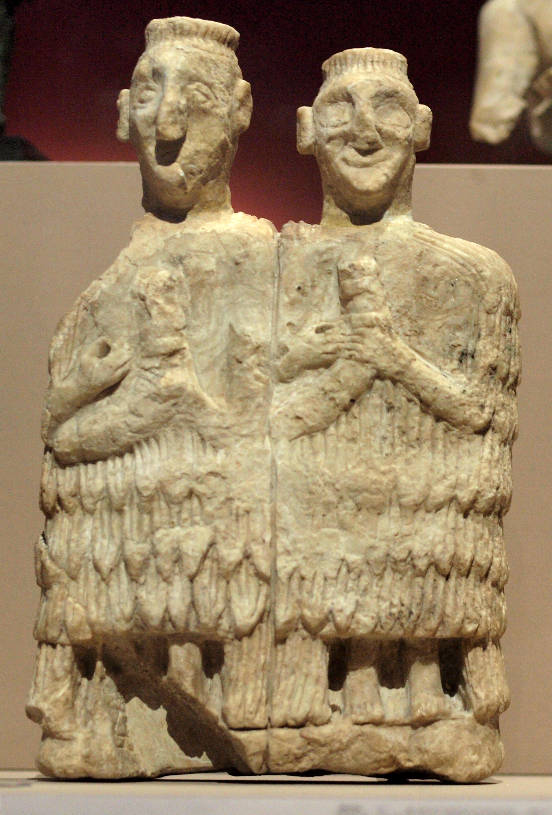 Couple of musicians. Alabaster statuette Mari, temple of Inanna, chamber of the priests Sumer 2450 BC Museum of the Louvre AO 17568